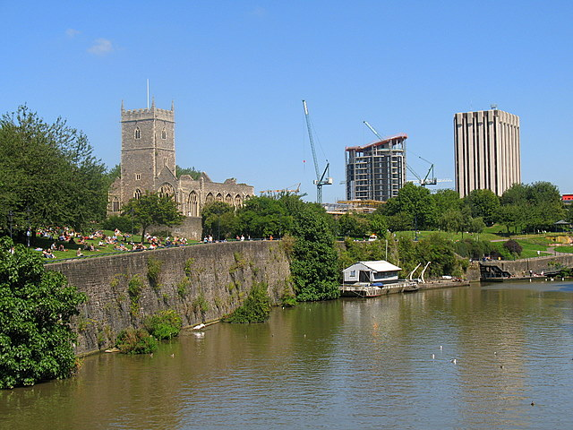 Castle Green and Broadmead redevelopment Looking from Bristol Bridge across the river towards Castle Green and the 'shell' of St Peter's church. In the centre background is part of the Bristol Alliance redevelopment of Broadmead. This structure is planned to be luxury apartments with a shopping area (including a Harvey Nichols store) at the base. The tall concrete building on the right is Castlemeads.